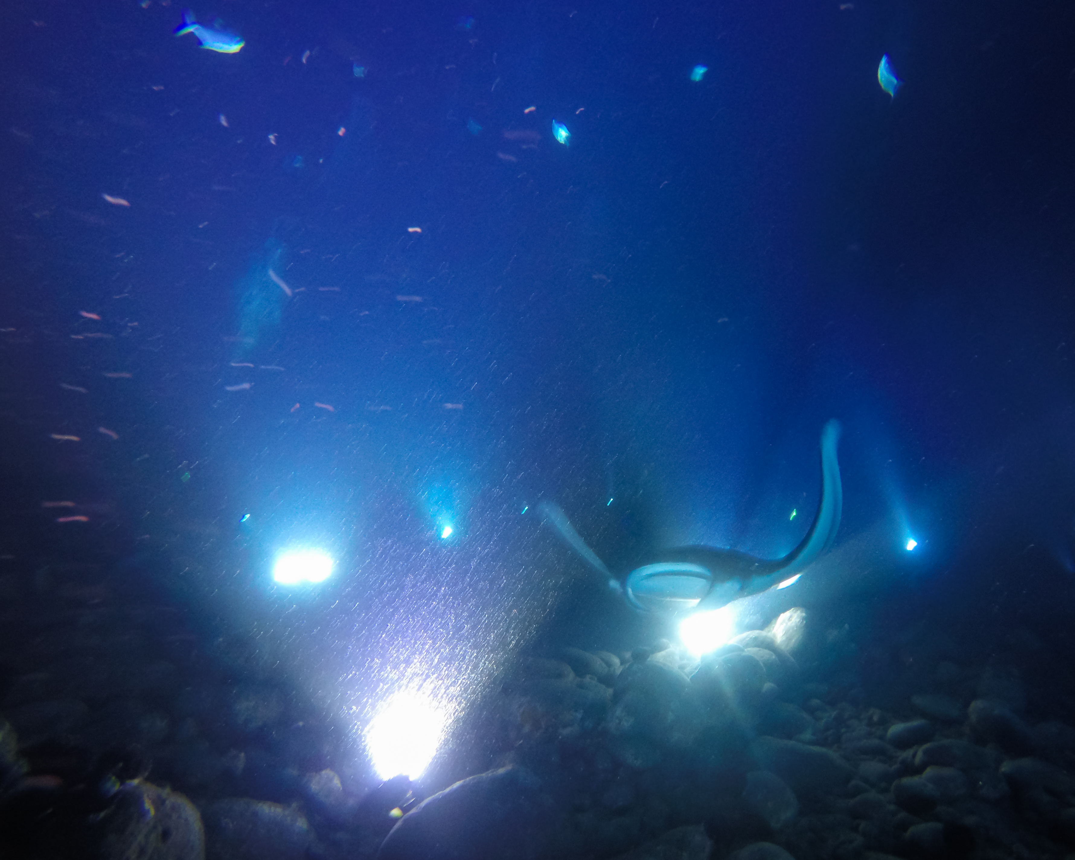 Manta dive Big island Hawaii